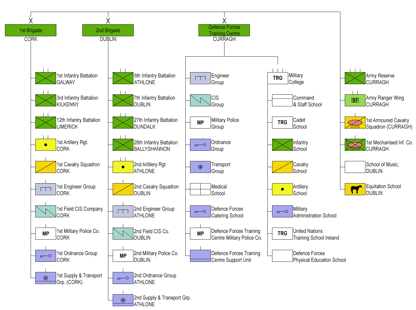 Irish Army formations as of May 2020